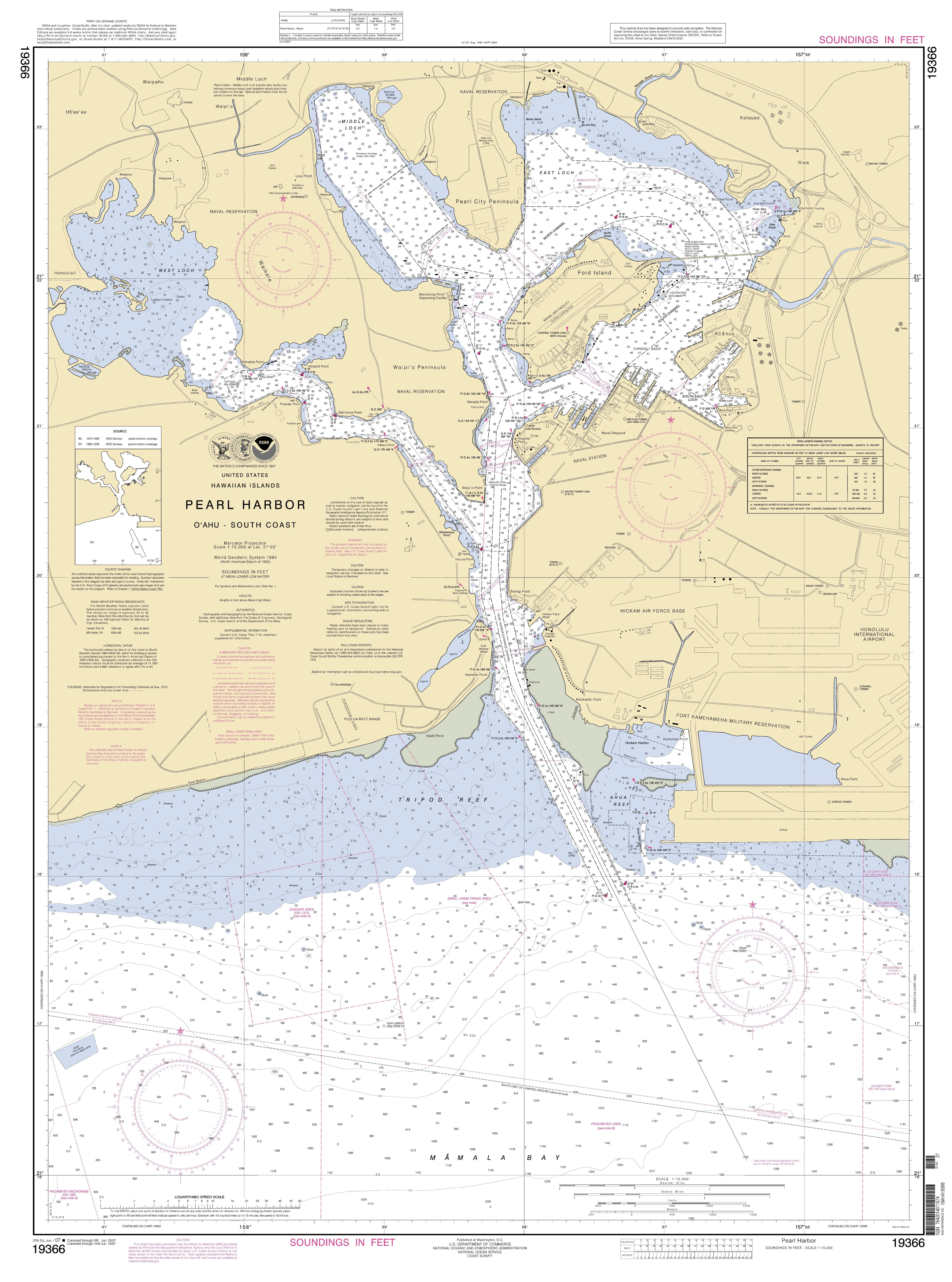 National Oceanic and Atmospheric Administration approach map for Pearl Harbor